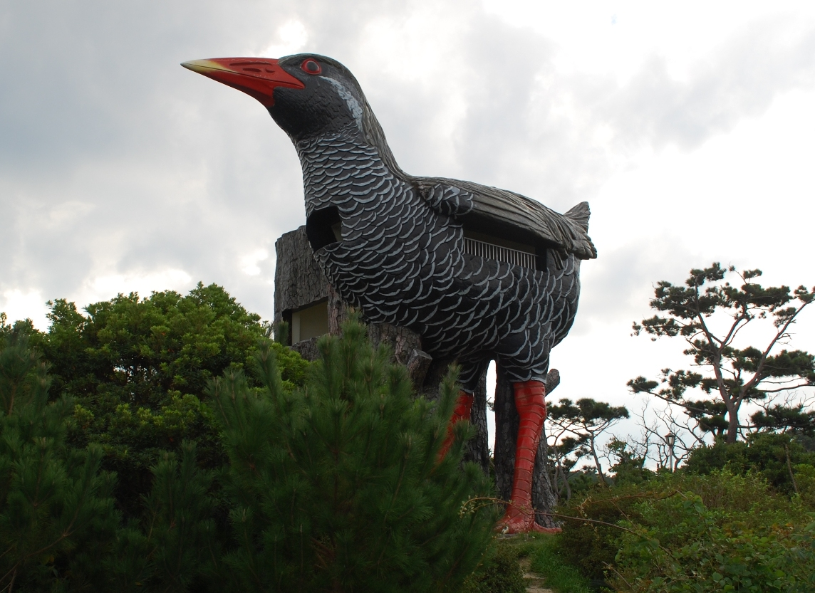 Yanbarukuina observatory